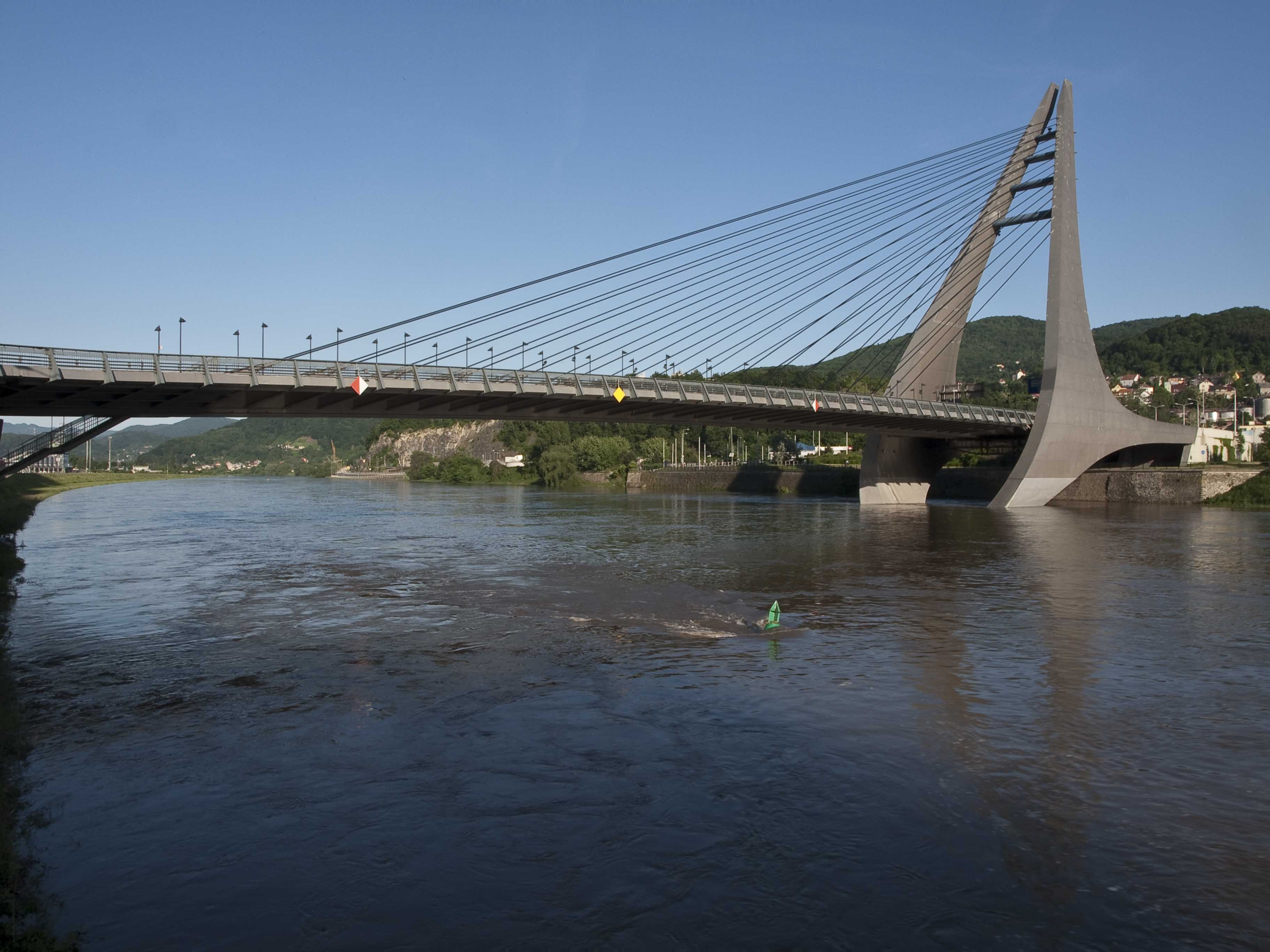 Marian Bridge in Ústi nad Labem